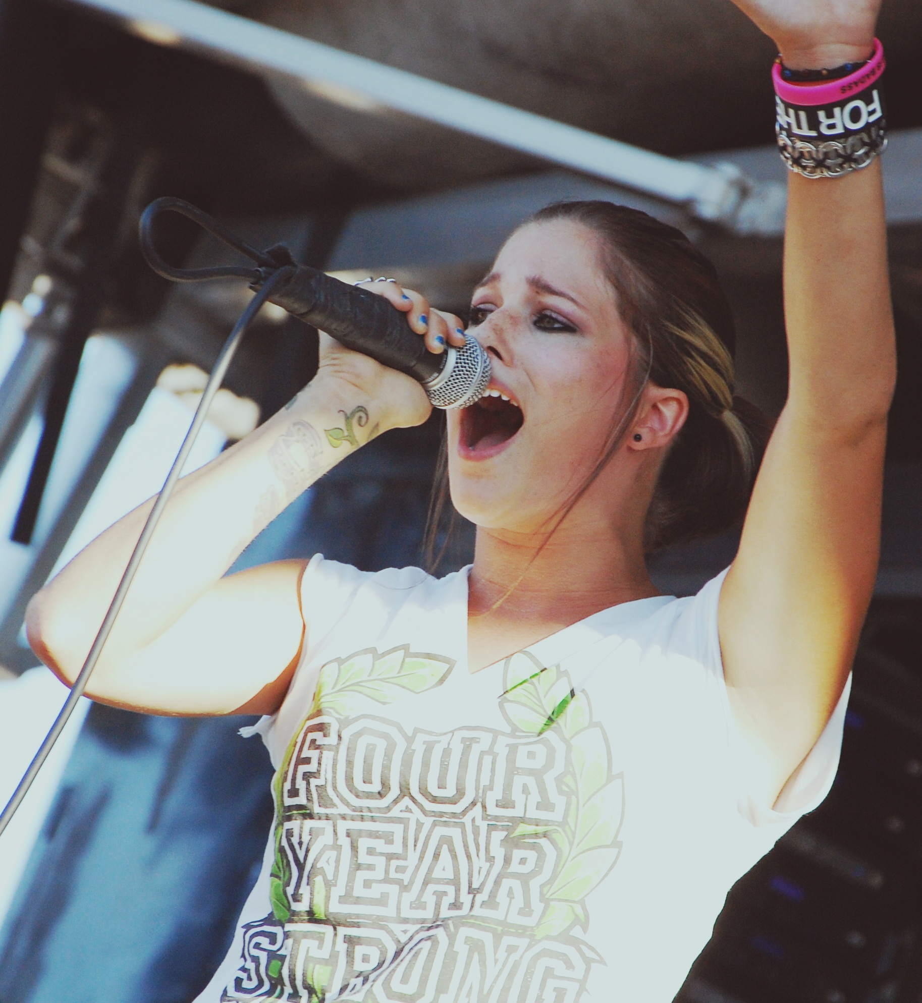 Cassadee Pope Hey Monday Hillsboro, Oregon August 15, 2010 Vans Warped Tour